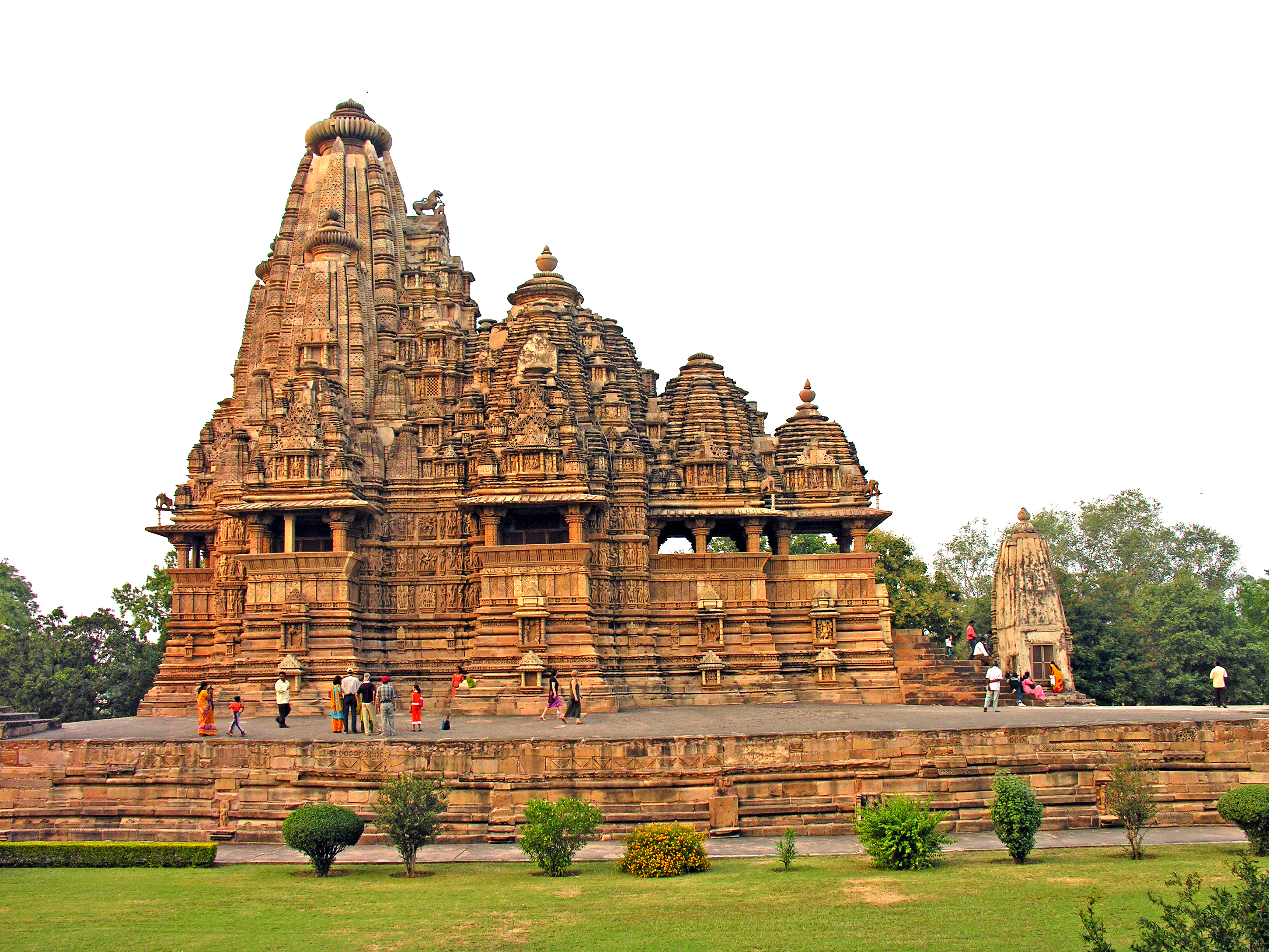 Visvanatha temple enshrines a three-headed image of Lord Brahma. Lions guard the northern entrance to the structure, while elephants flank the southern flight of steps that lead up to it. Khajuraho, India Western Group of Temples in Khajuraho constitutes some of the most splendid and architecturally marvelous specimen of temple architecture in India. The group includes such magnificent temples like Kandariya Mahadeo Temple, Chaunsat Yogini Temple, Chitragupta Temple, Lakshamana Temple, Matangeswara Temple, and Varaha Temple.